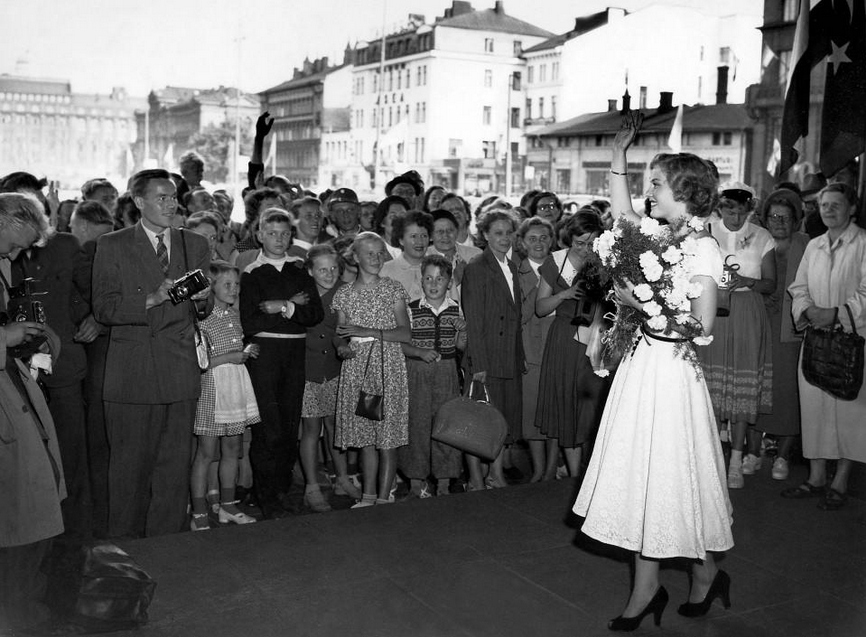 Miss Universum Armi Kuusela meets people in Helsinki, in front of Hotelli Vaakuna.